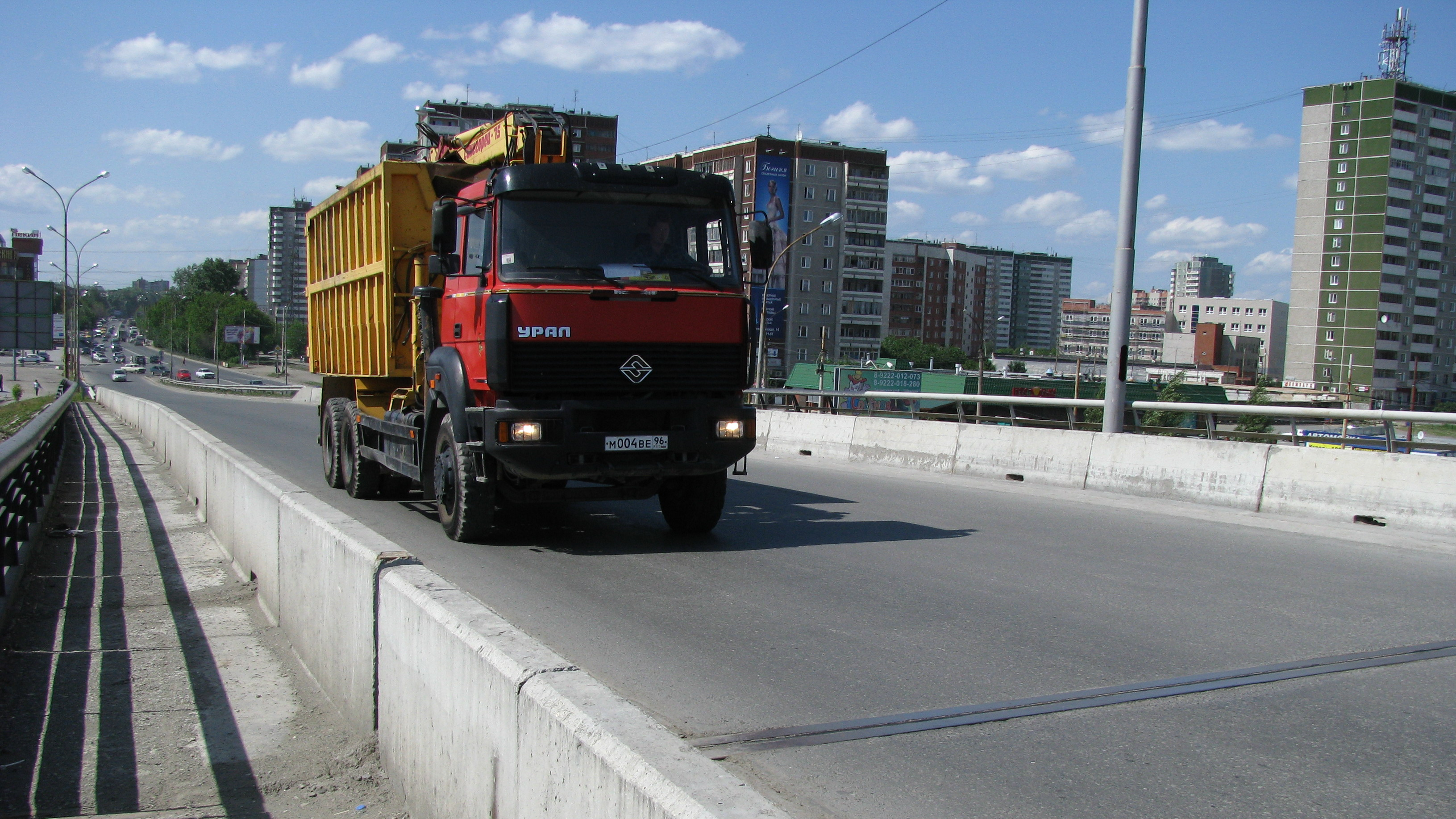 Ural 6361-01 at Yekaterinburg.